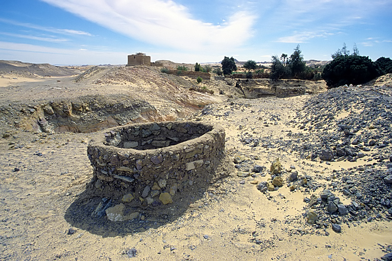 Qanat shaft, Qasr el-Labakha, el-Kharga depression, Libyan desert, Egypt